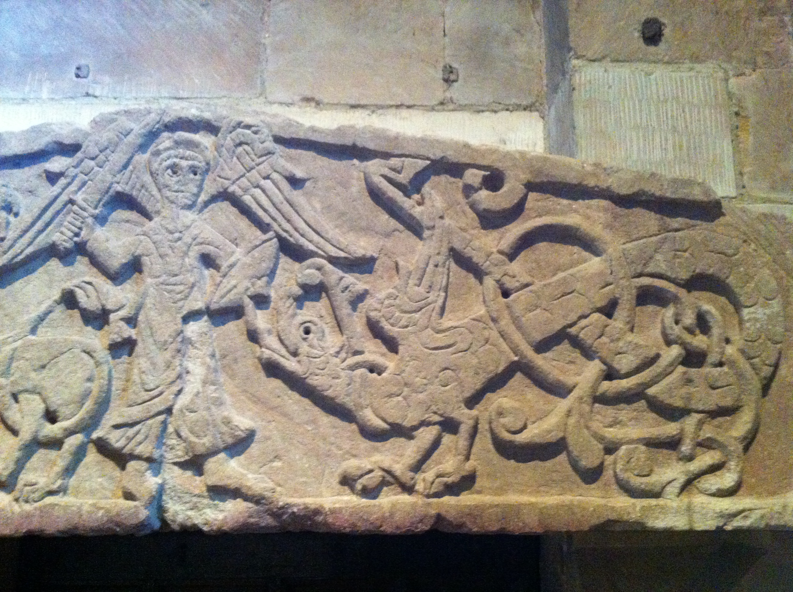 An eleventh century Saxon carving, probably a door lintel in the north transept of Southwell Minster